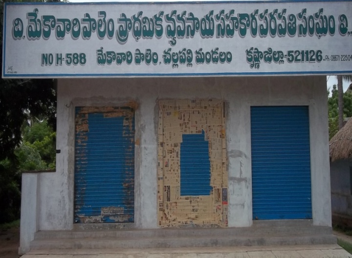 Agricultural Cooperative Society